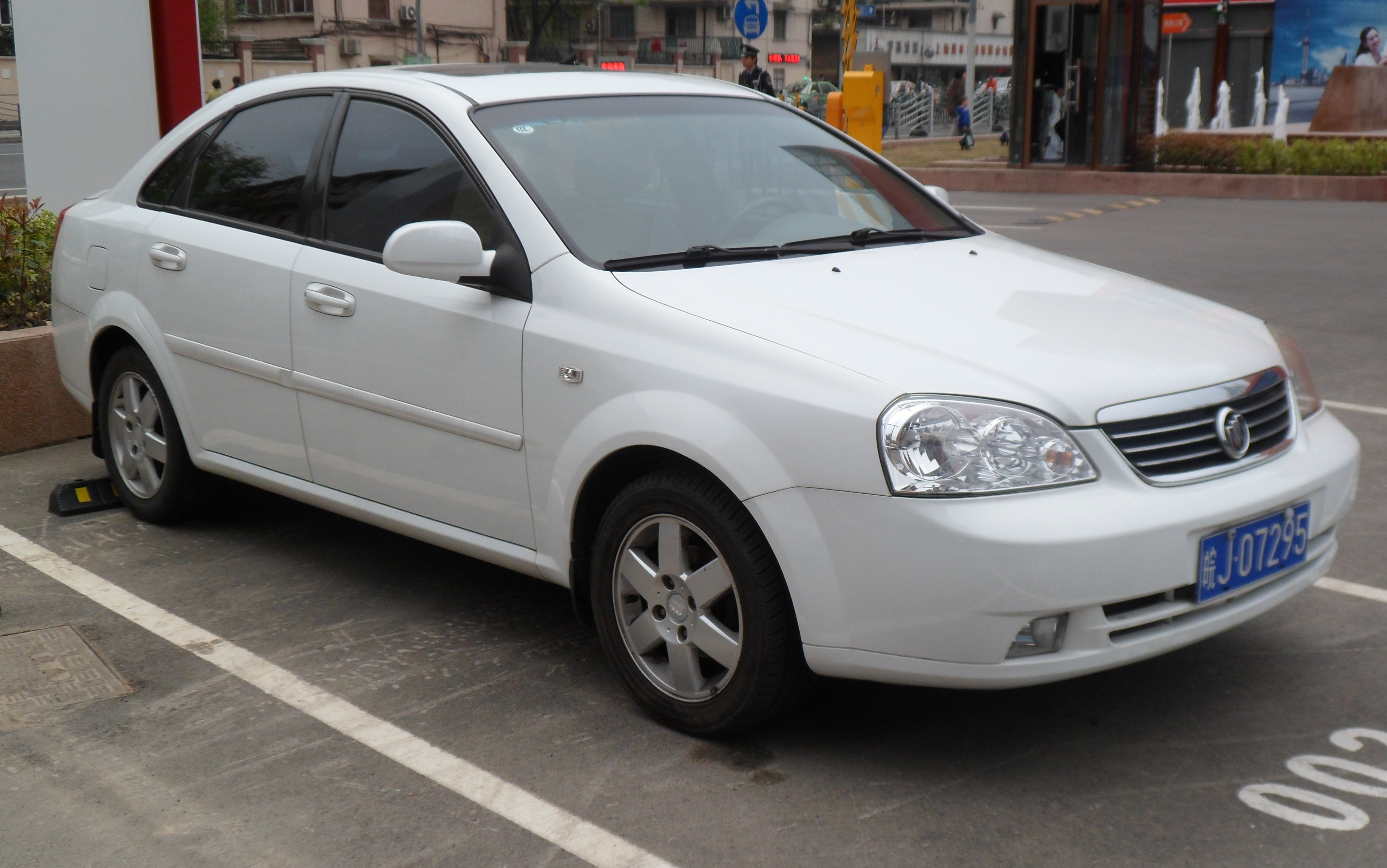 Buick Excelle photographed in Shanghai, China.